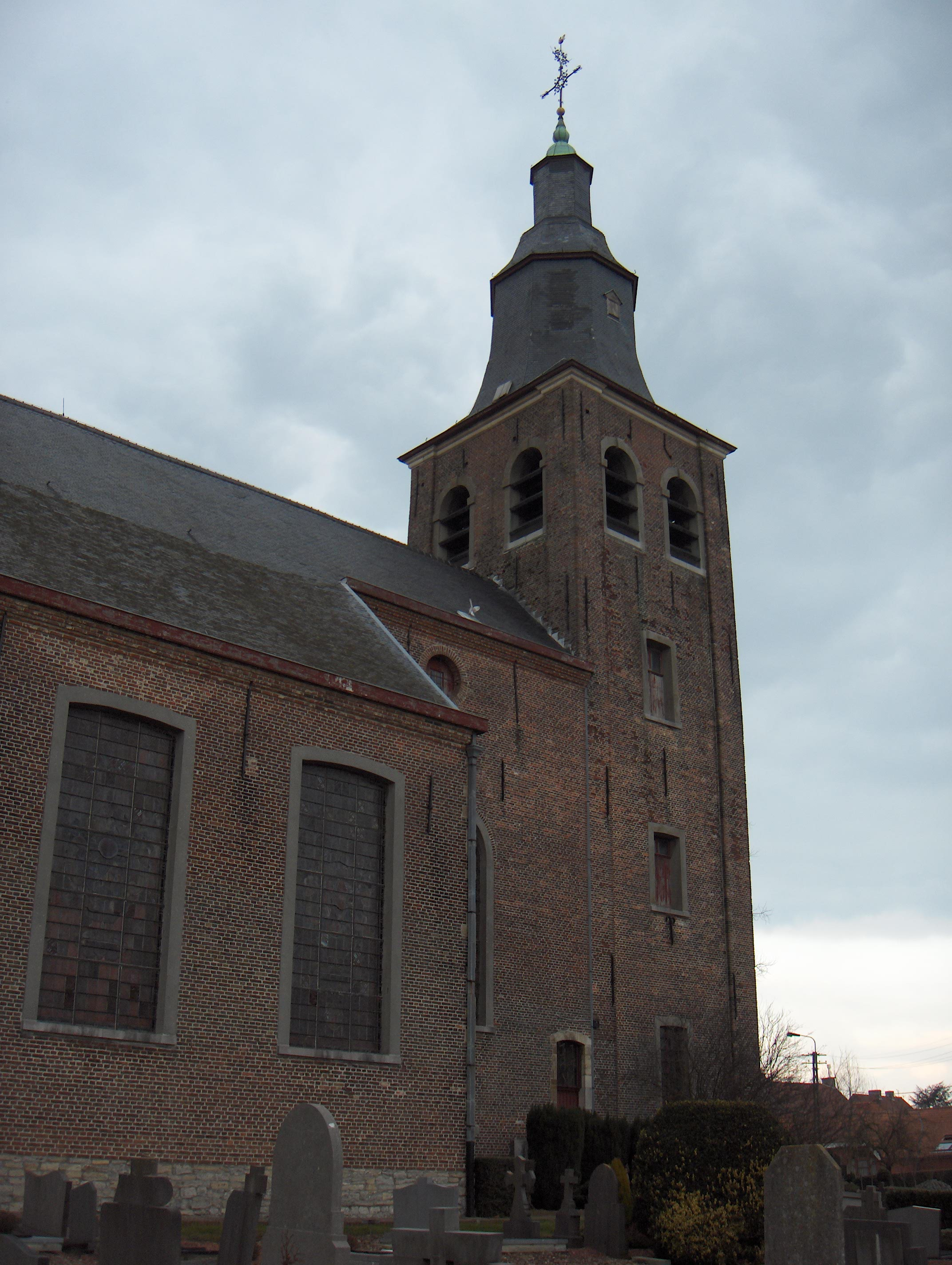 Church of Saint Malo in Wannegem-Lede. Wannegem-Lede, Kruishoutem, East Flanders, Belgium